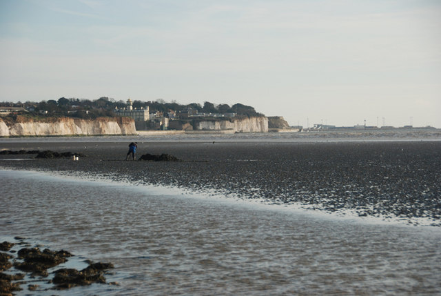 Digging for lugworms in Pegwell Bay, Kent The same digger taken from a different direction. Pegwell Village can be seen on the clifftop, the large white building is The Pegwell Hotel.